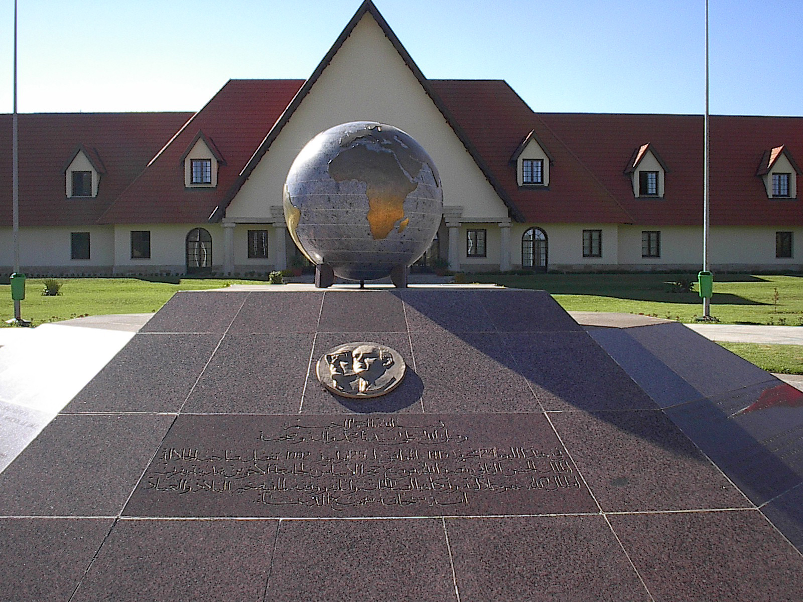 A sculpture at Al Akhawayn University, featuring a globe above an eight-languaged plaque.